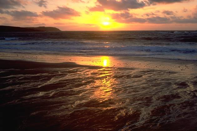 Sunset at the Côte d'Émeraude in Bretagne, France.